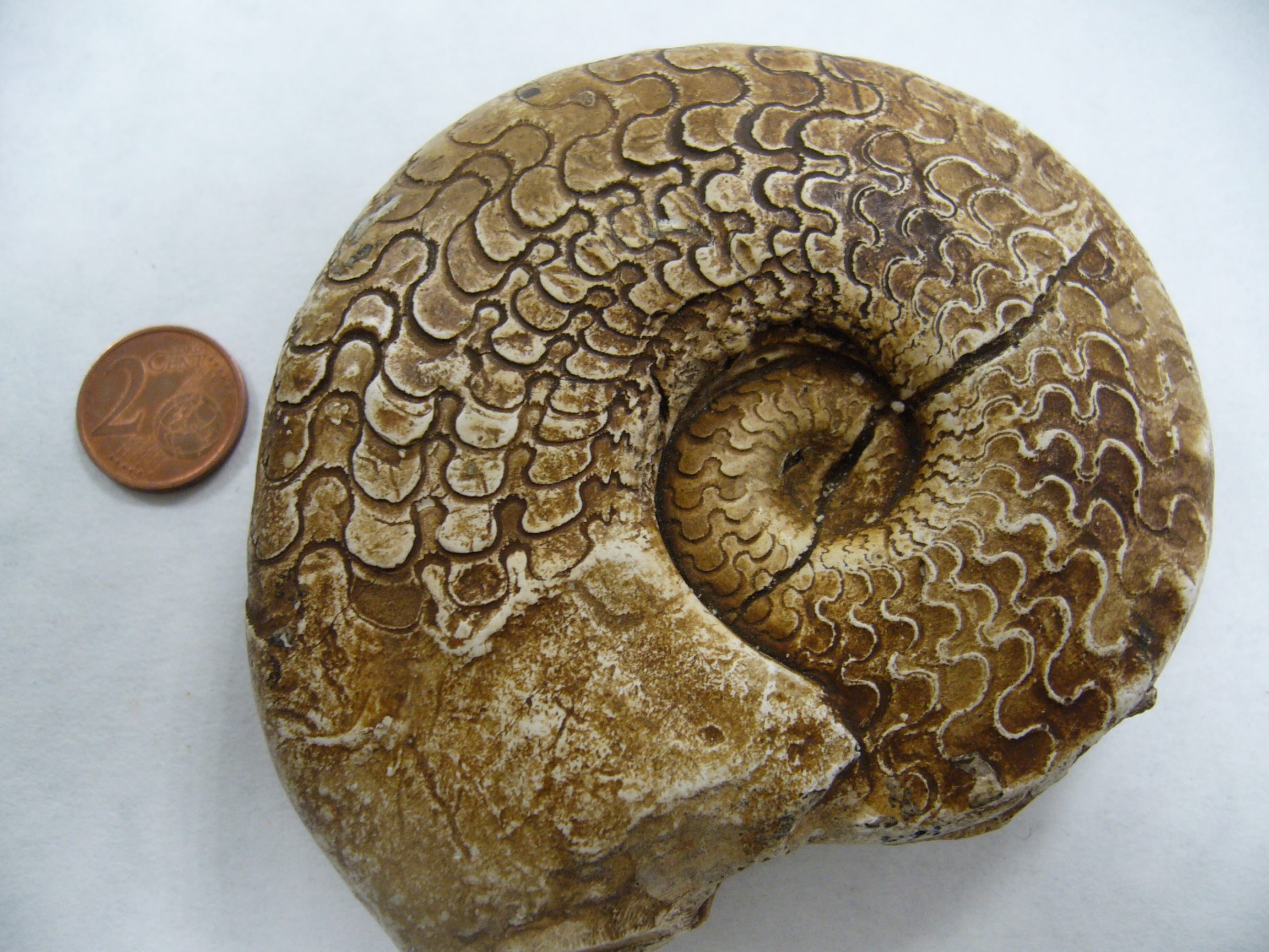 Ceratites replica (Middle Triassic, Germany) in a laboratory of practices of the Faculty of Sciences of the University of Corunna.